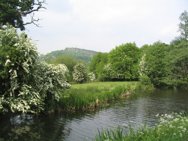 View across the Montgomery Canal approaching Llanymynech. With the heavily quarried Llanymynech Hill in the distance.